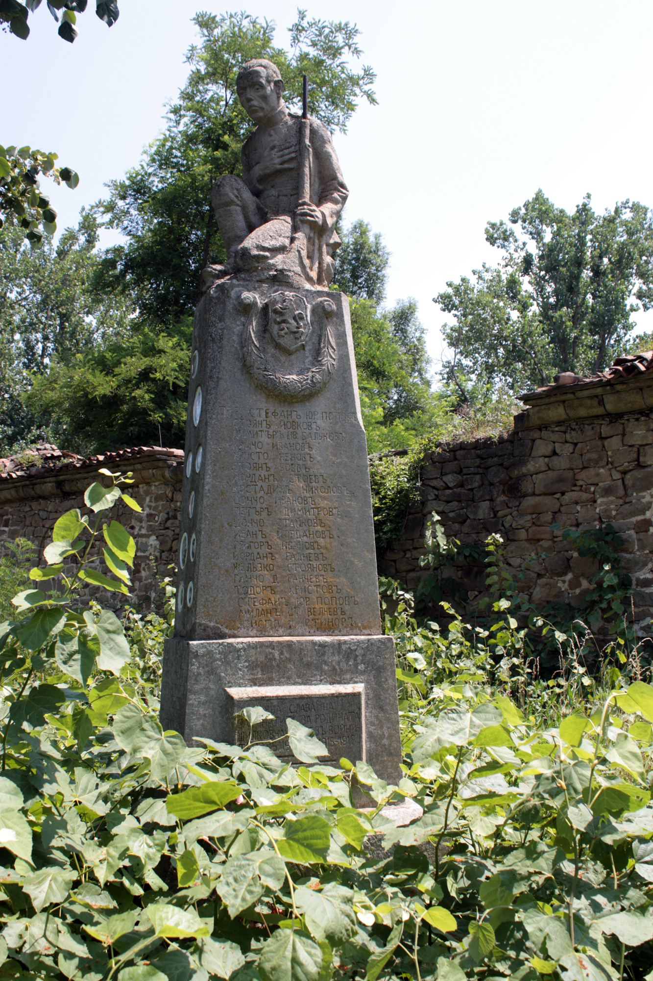 War memorial in Gardevtsi, Bulgaria